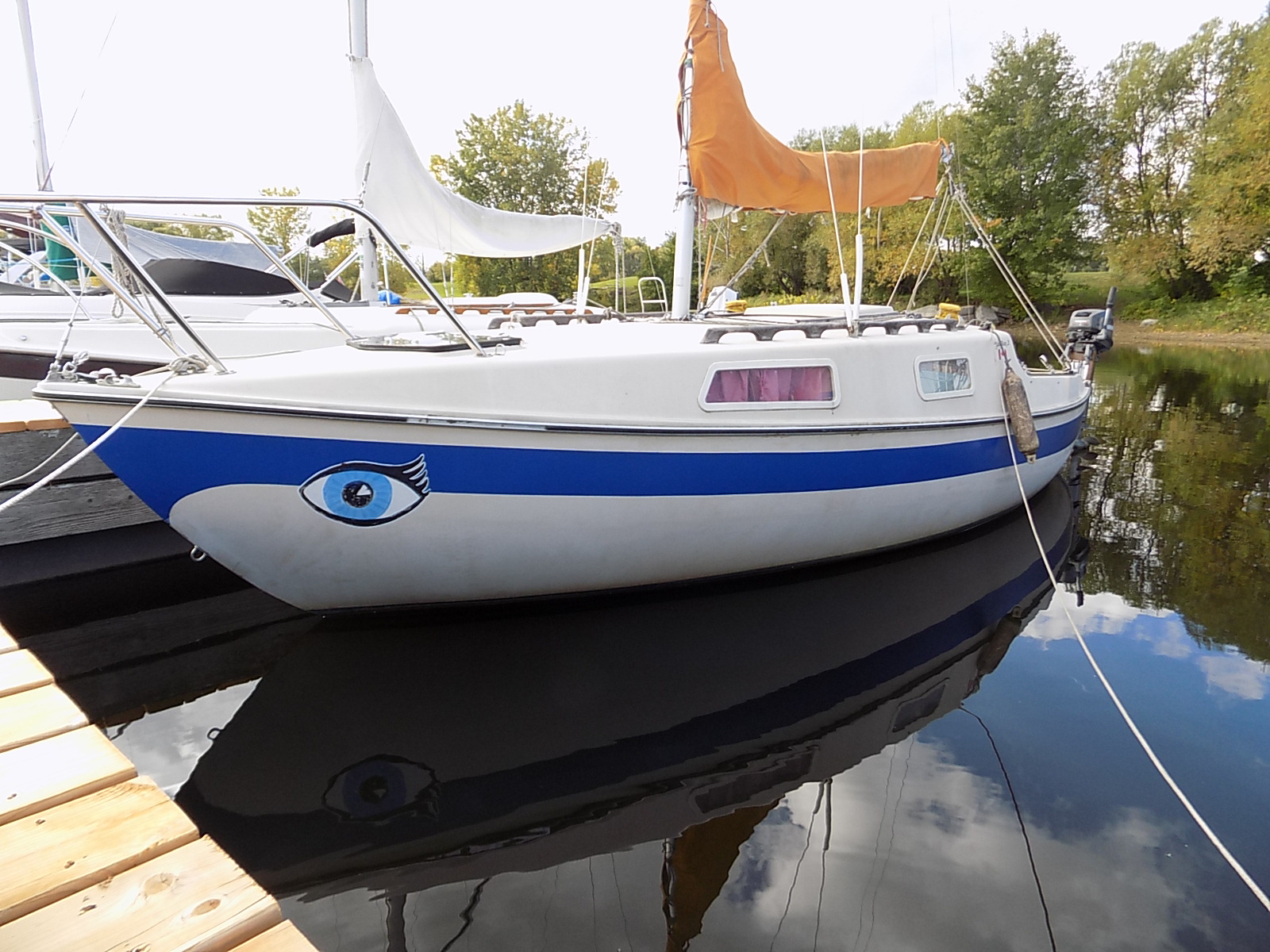 A San Juan 21 Mark II sailboat named Iris.